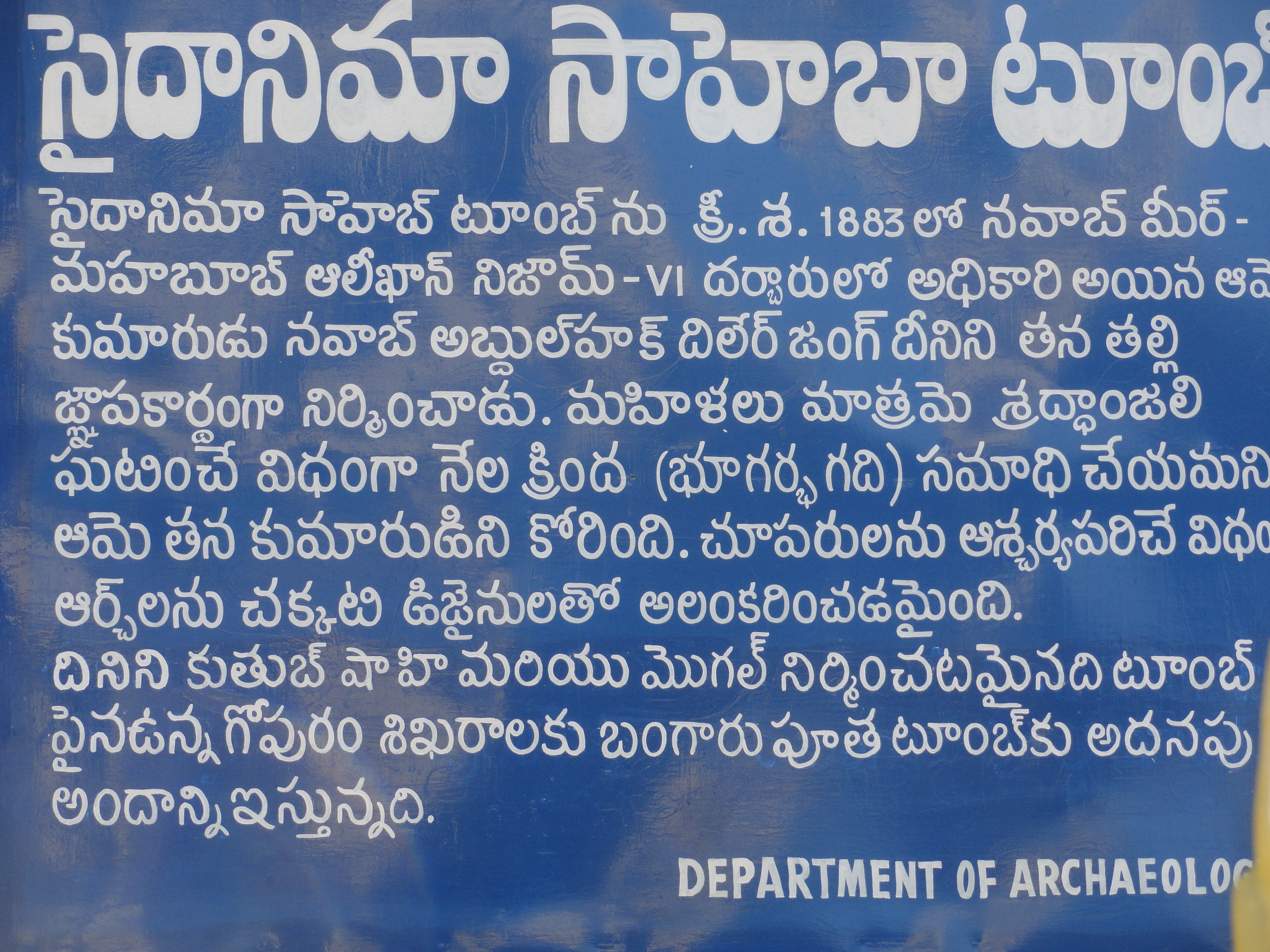 a board at a mosque, in secunderabd